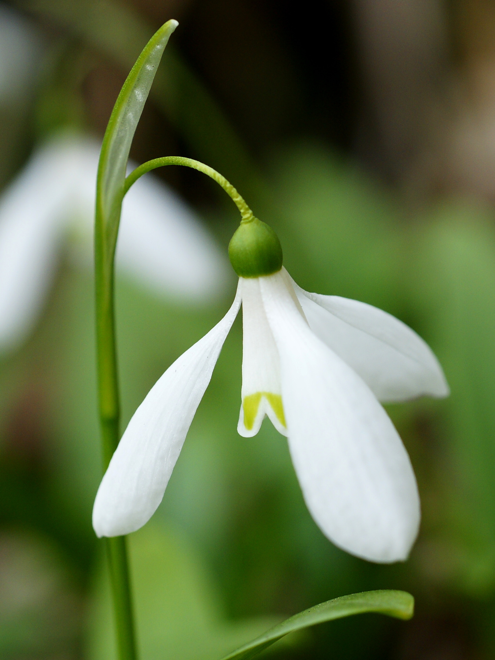 Galanthus woronowii at the Palmengarten in Frankfurt am Main, Germany. Taken using a Sony alpha 700, Minolta 50mm 2.8 Macro.